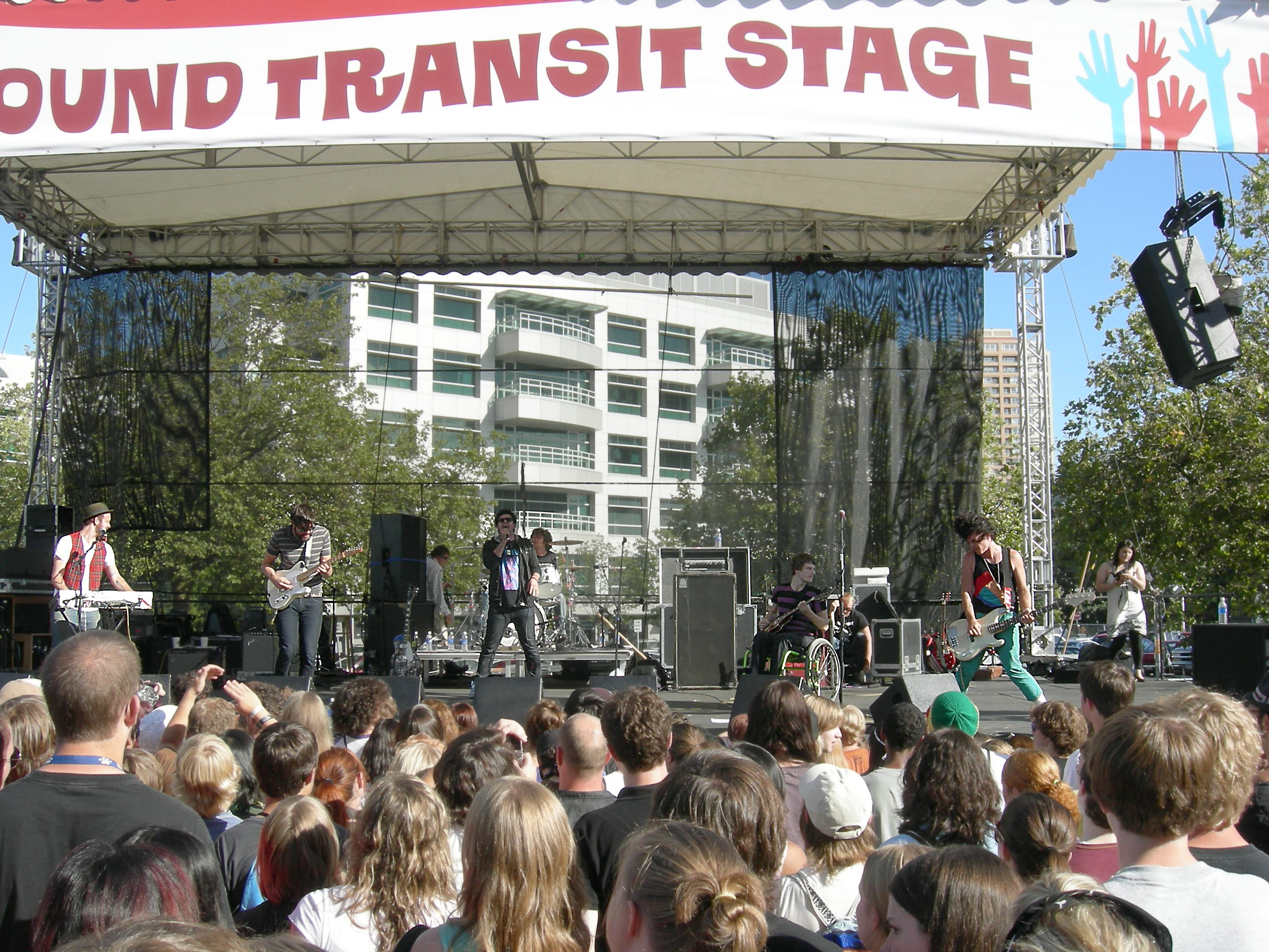 Seattle power pop band The Lashes perform at Bumbershoot, a music and arts festival held every Labor Day weekend at Seattle Center, Seattle, Washington, USA.